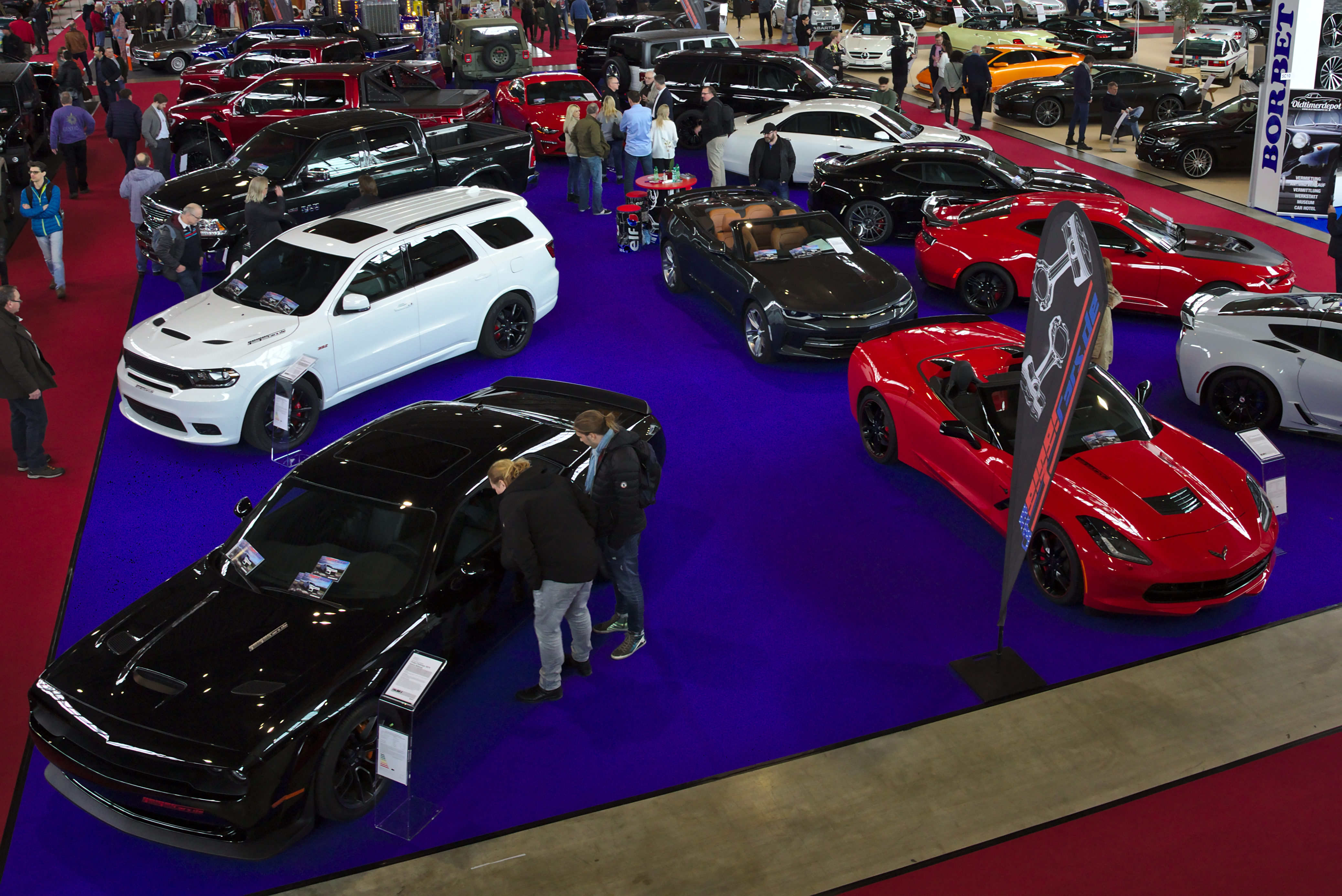 Geigercars at Retro Classics 2018